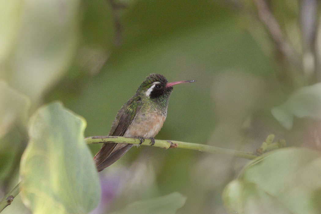 Hylocharis xantusii This is a very cropped photo, mostly so I can wave it at other birders to show that I saw this species, which is endemic to Baja. This individual, perhaps typical of the species, was very fast and very challenging/frustrating to photograph. Santiago, Baja California Sur, Mexico.